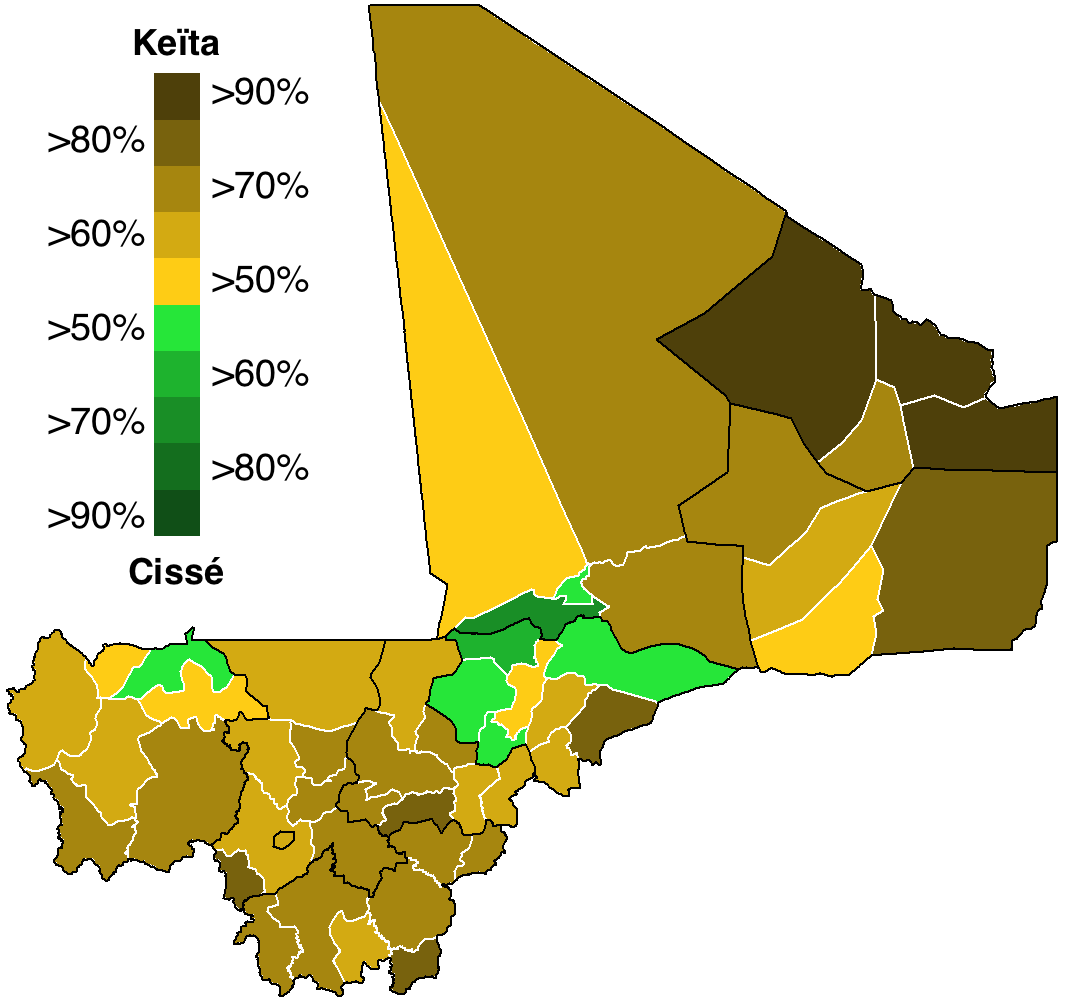 Results of the second round of the Mali Presidential Election 2018, based on the majority of votes in each Cercle of Mali.